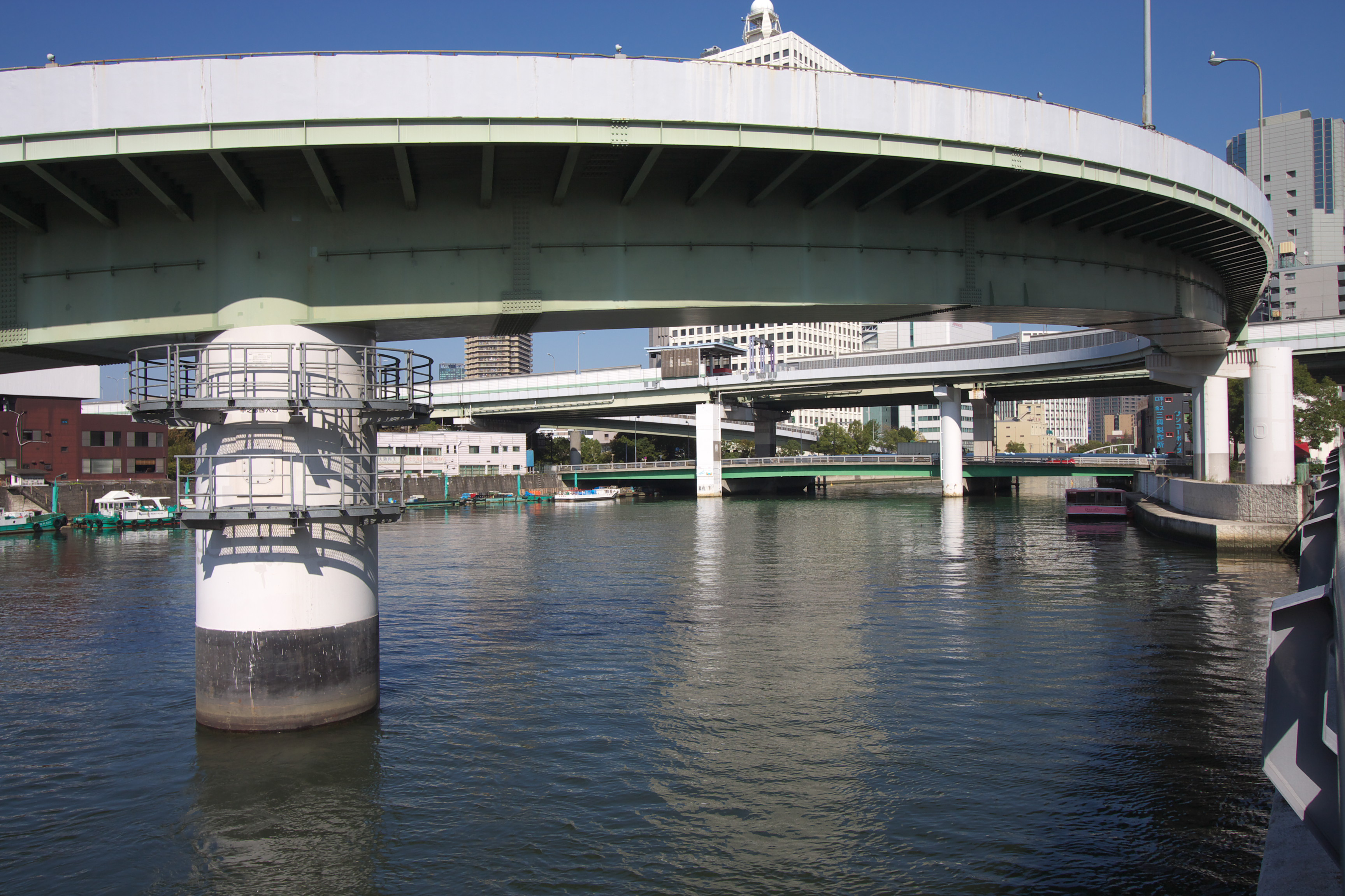 Minatobashi Bridge and Nakanoshima Nishi Deiriguchi of Hanshin Expressway (Osaka, JAPAN)